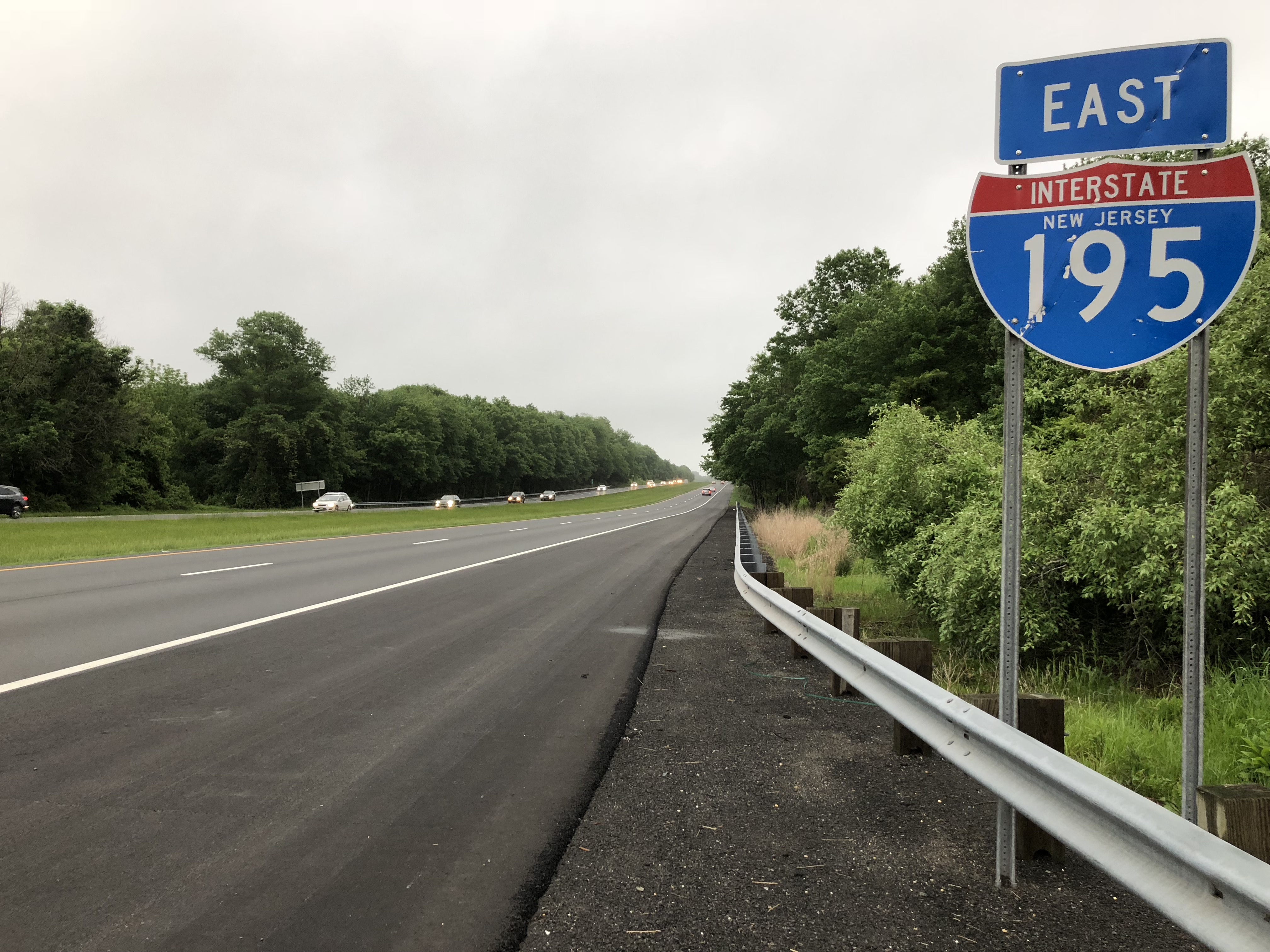 View east along Interstate 195 (Central Jersey Expressway) just east of Exit 11 in Upper Freehold Township, Monmouth County, New Jersey